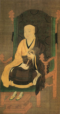 Portrait of Uisang